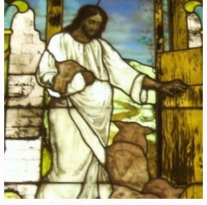 Jesus as shepard 1